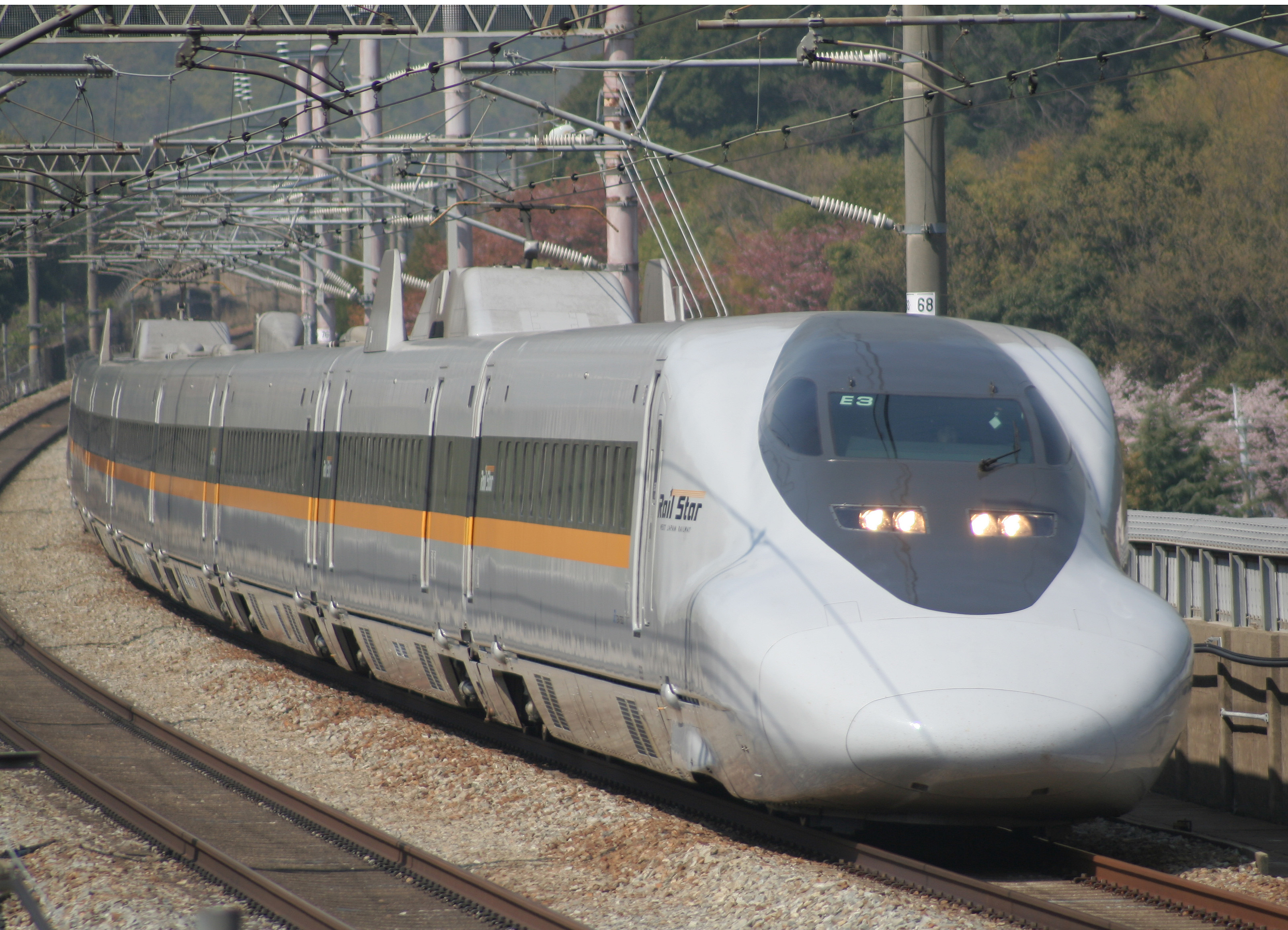 JR West 700-7000 series shinkansen set E3 between Okayama and Aioi on a Hikari Rail Star service